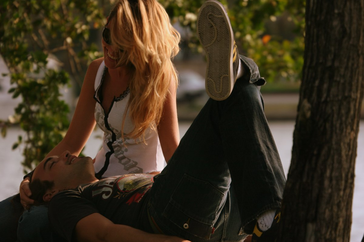 Laughing couple.